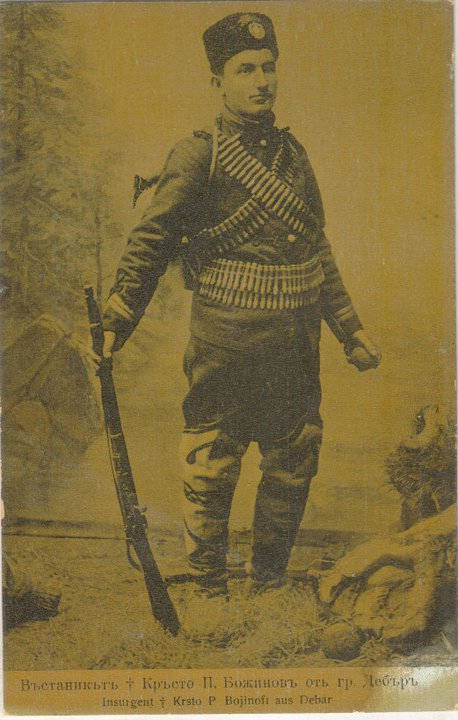 IMARO revolutionary